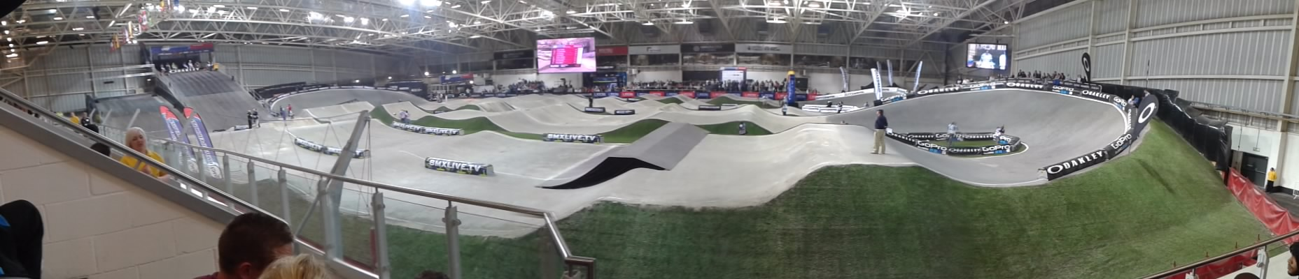 Manchester BMX hall in the national cycling centre during the 2013 UCI BMX World Cup